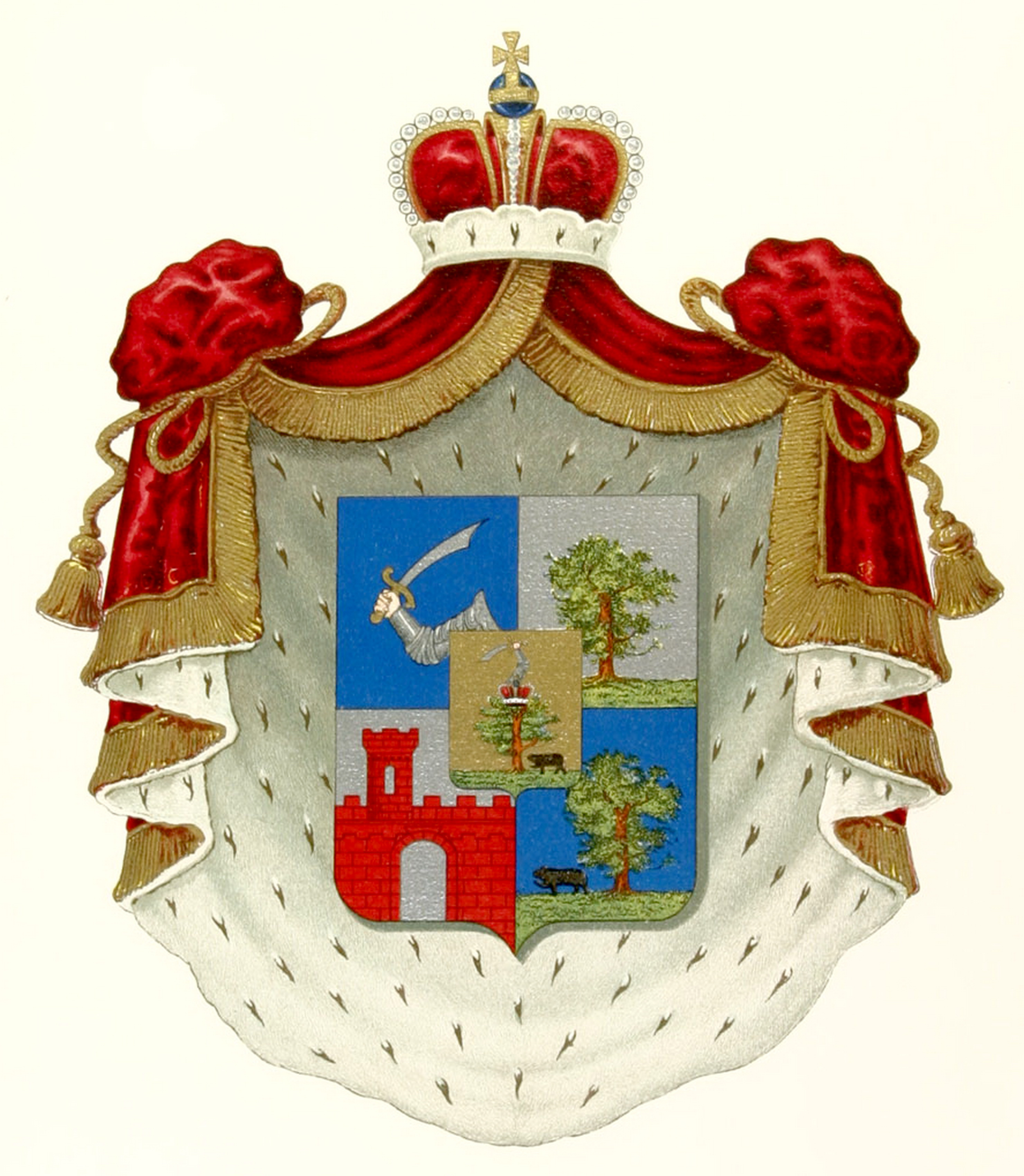 Coat of Arms of family